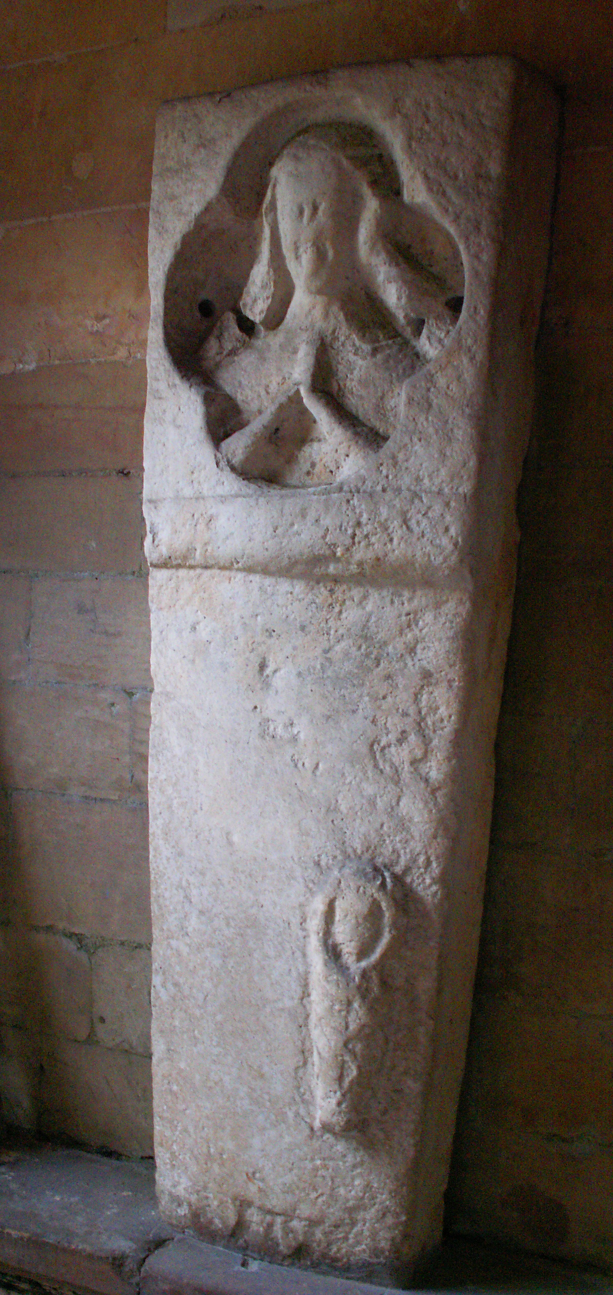 14th-century tomb cover at St Bartholomew's church, Welby, in the South Kesteven district of Lincolnshire, England. It shows a half-effigy of a female sunk within a quatrefoil with an opening at the base showing the feet. On the surface is an infant in a shroud. The slab was in the graveyard until 1964 when it was re-sited within the church porch to prevent further erosion.